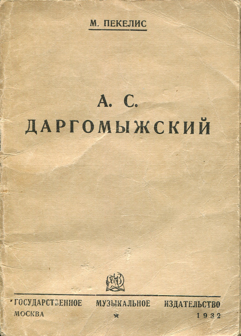 M.S.Pekelis - preface to clavieruszug opera "Mermaid"